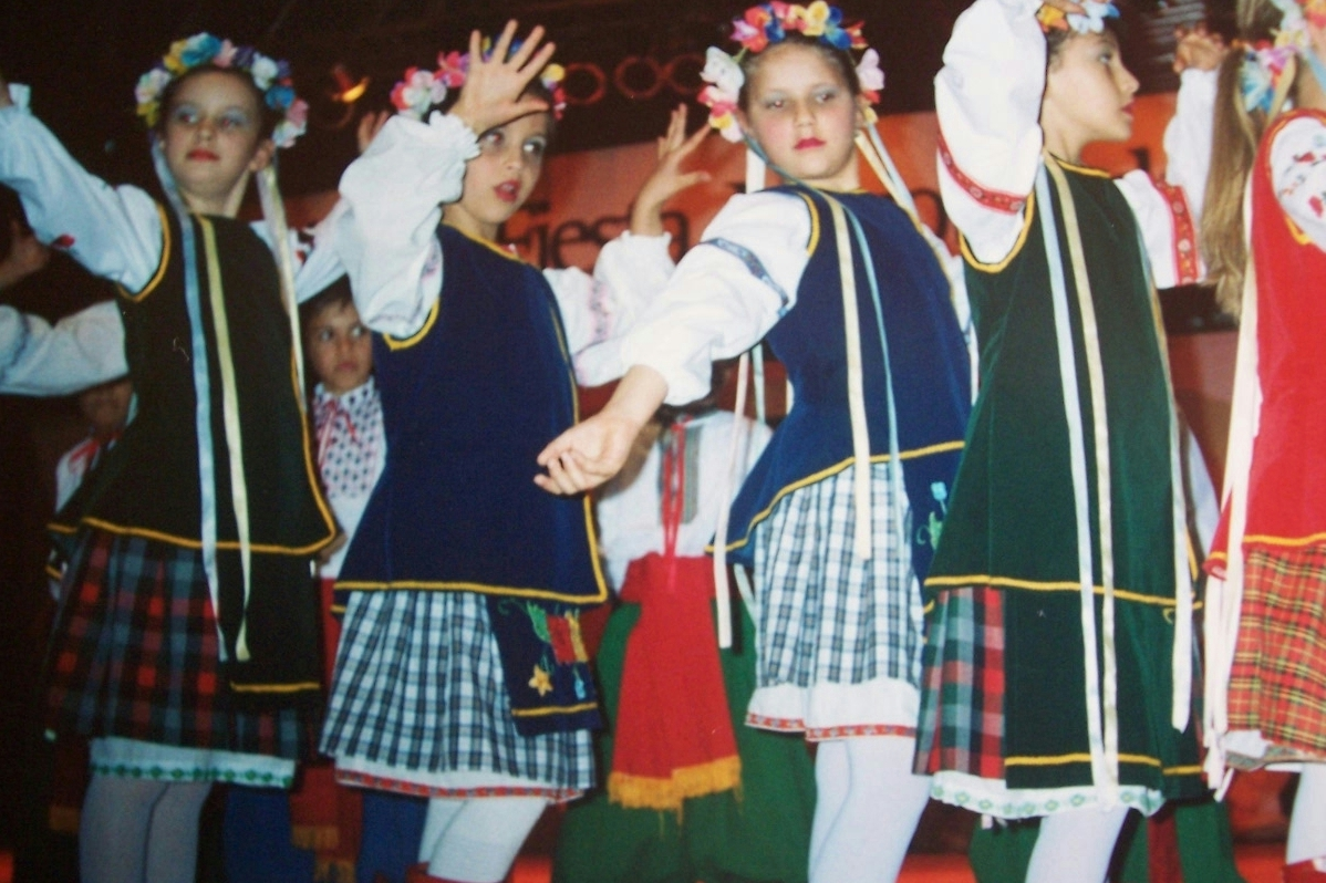 Ukranian ballet dancing in the main scene of the Immigrant's Festival, celebrated in Oberá, Misiones, Argentina.